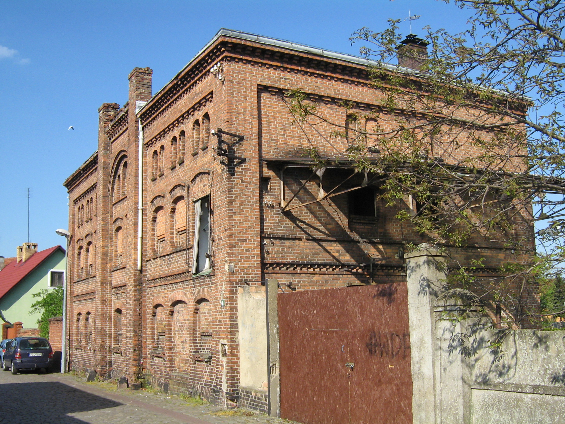 Old brewery building in Przykop-street, Grodzisk Wlkp. (Poland)